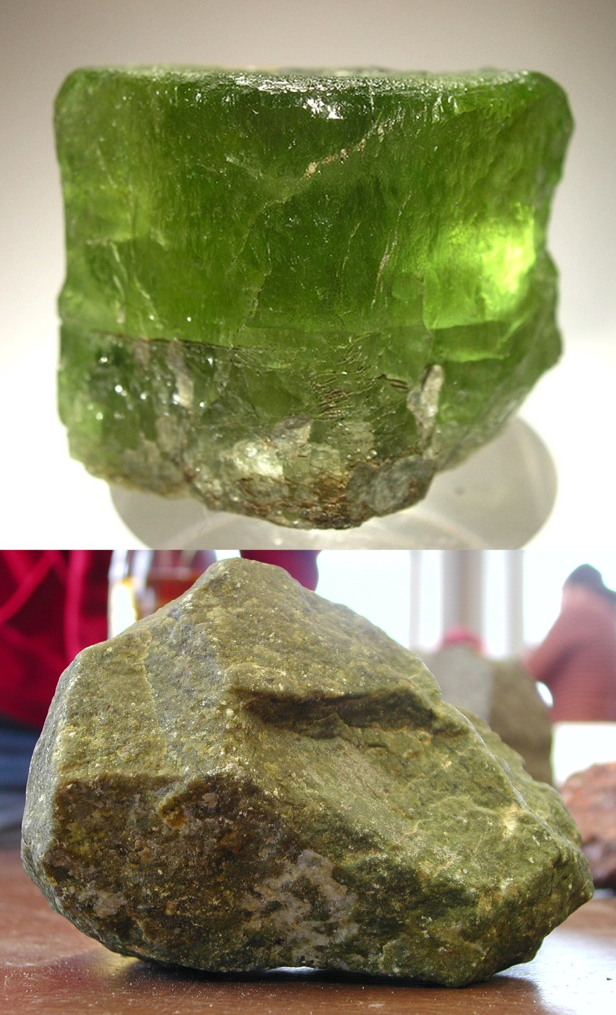 Olivine - rock-forming mineral of Dunit